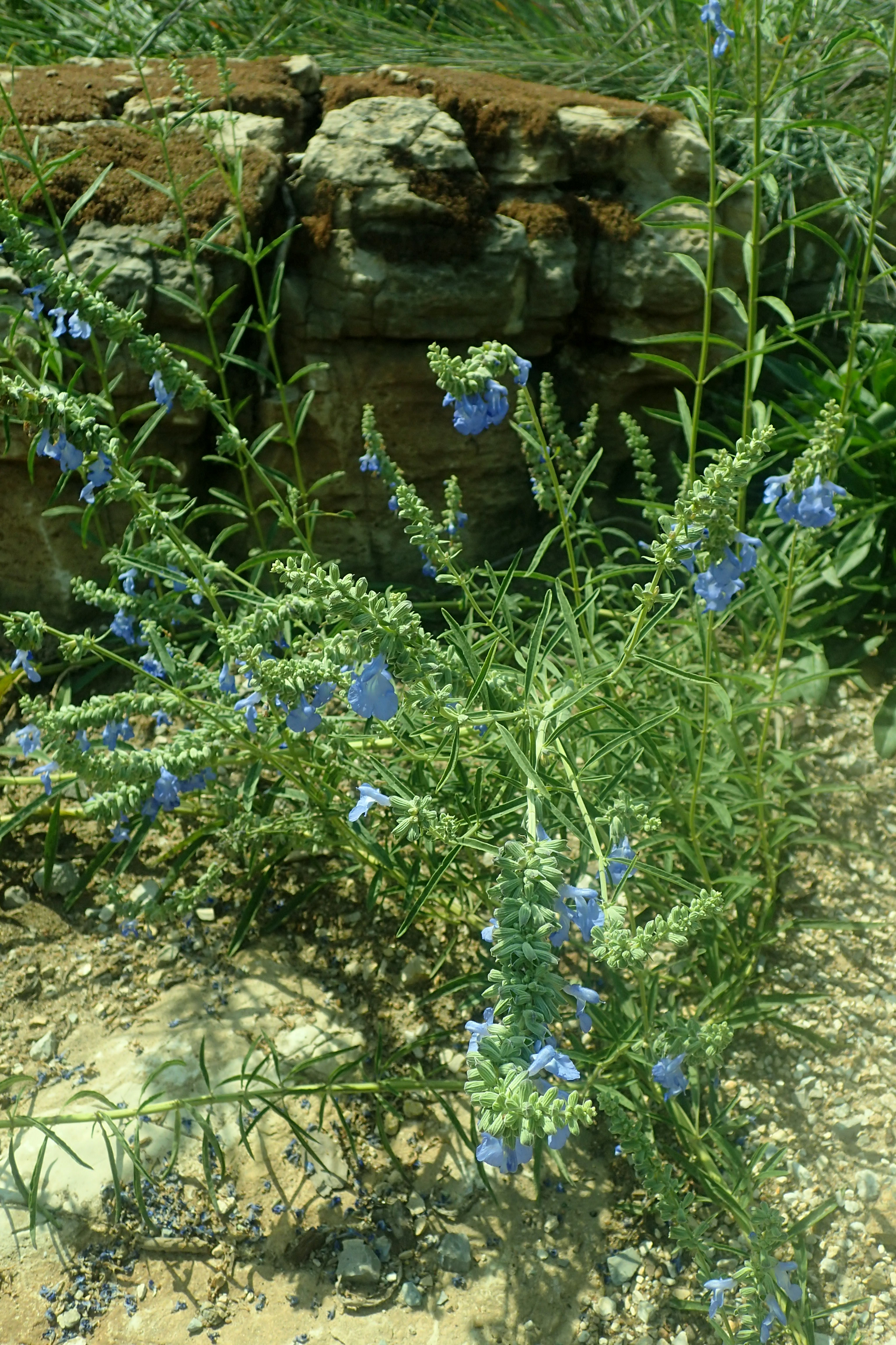 Salvia azurea in the Missouri Botanical Garden, St. Louis